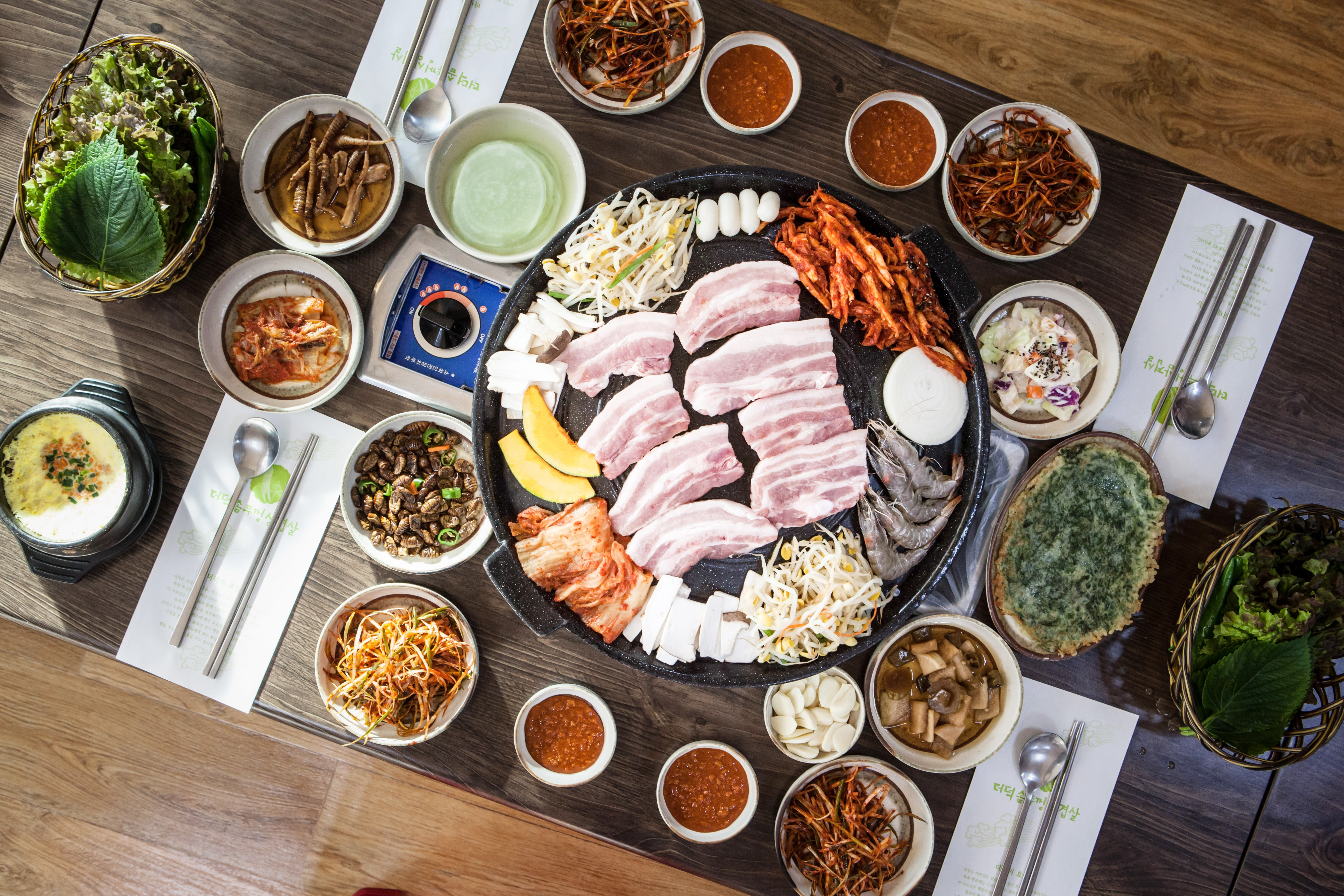 Samgyeopsal (grilled pork belly) table